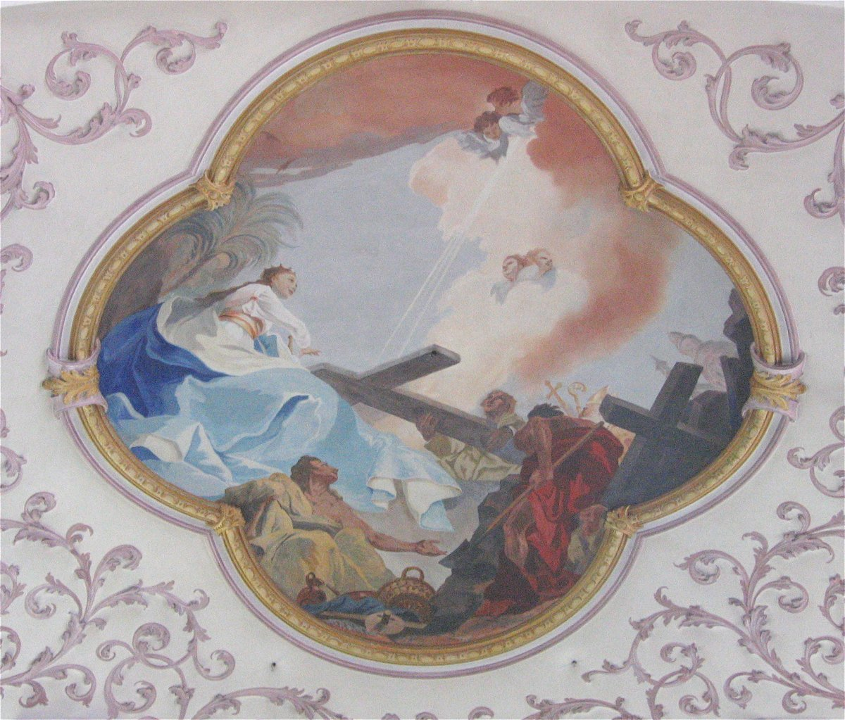 Kiefersfelden, Holy Cross new Parish Church. Fresco of the presbytery vault.